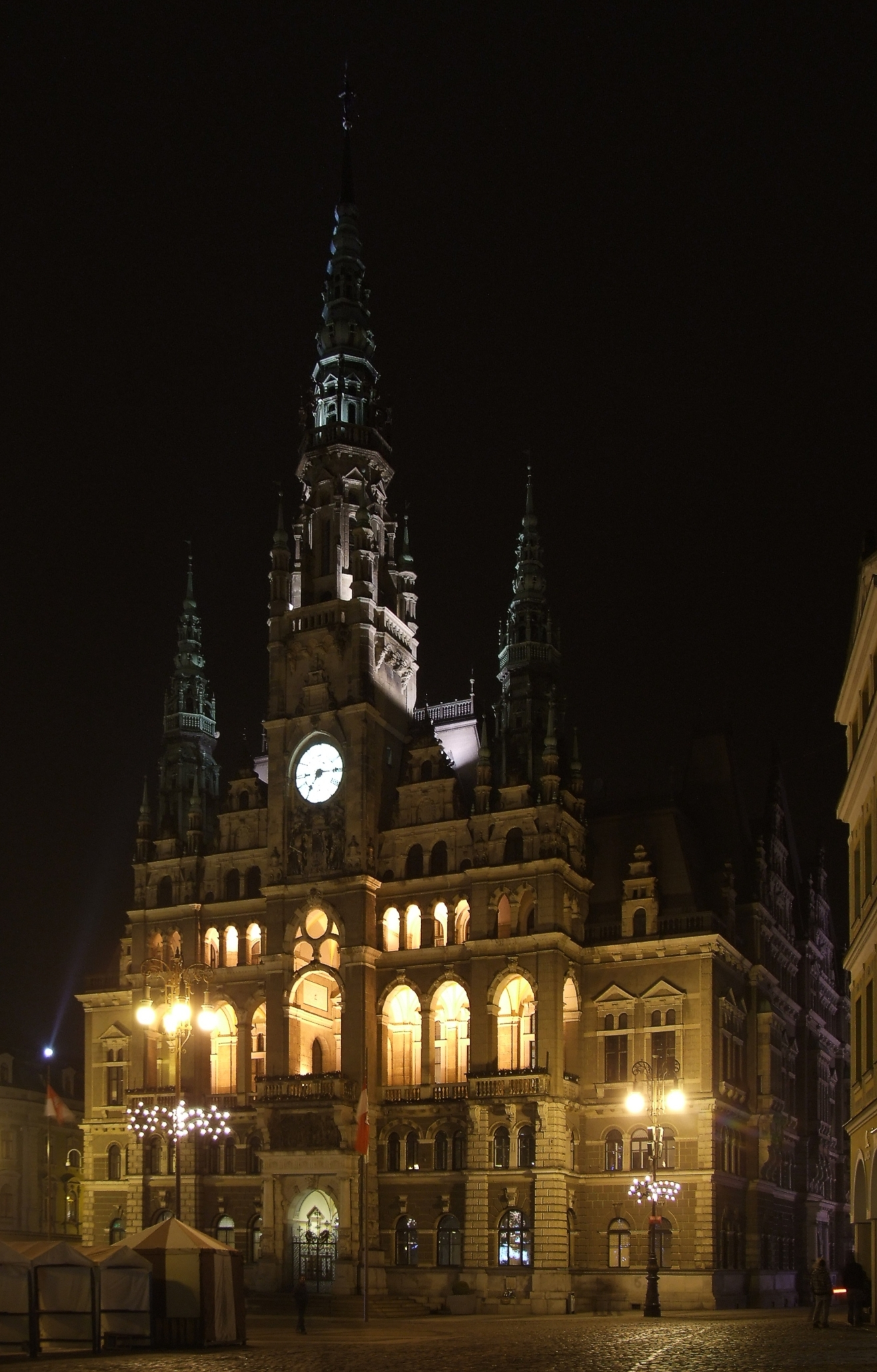 Liberec (Reichenberg), Czech Republik - town hall by night